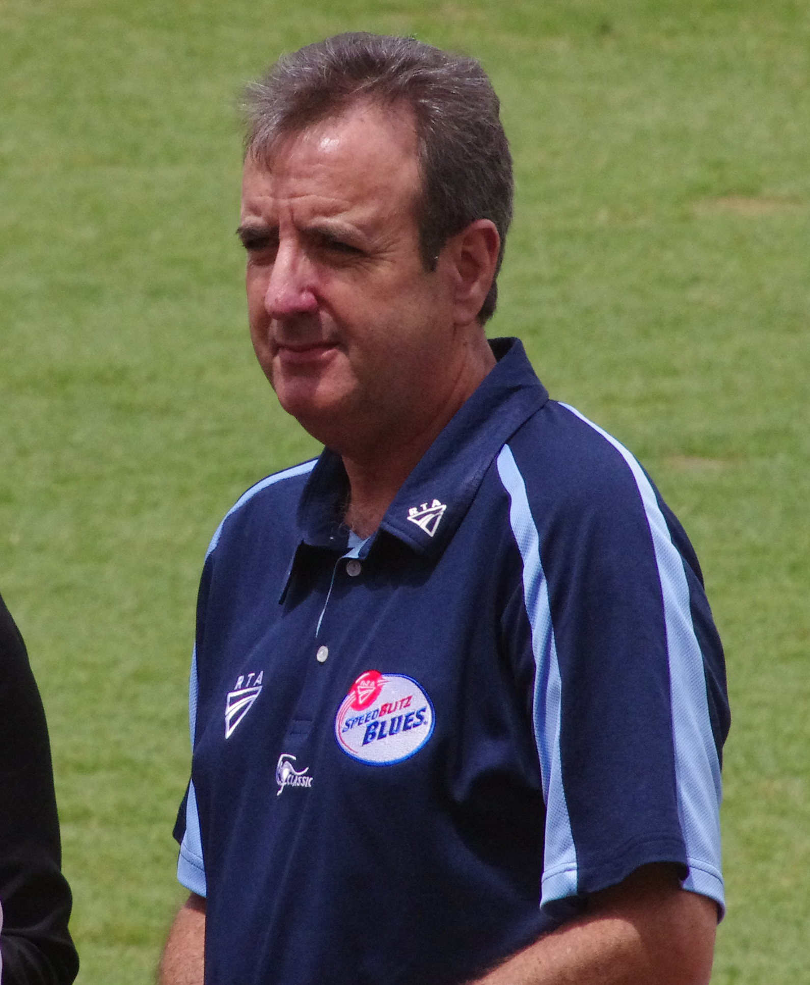 Australian cricketer player and coach Dave Gilbert